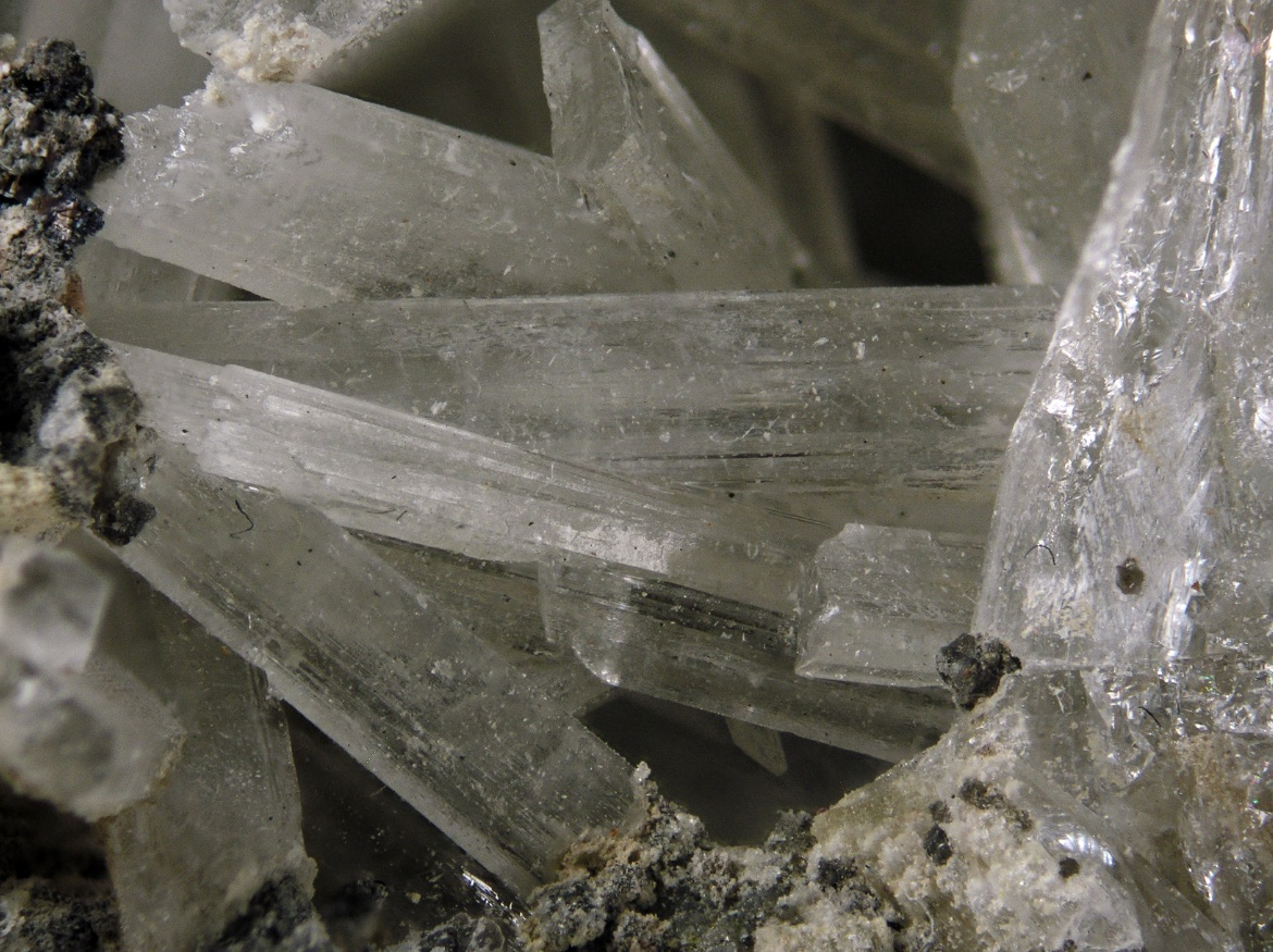 Locality: Shijiangshan mine (Dashishan mine), Linxi, Linxi Co., Ulanhad League (Chifeng Prefecture), Inner Mongolia Autonomous Region, China Field of View: 15 mm Specimen analysed by Raman spectroscopy, SEM/EDS and XRD.